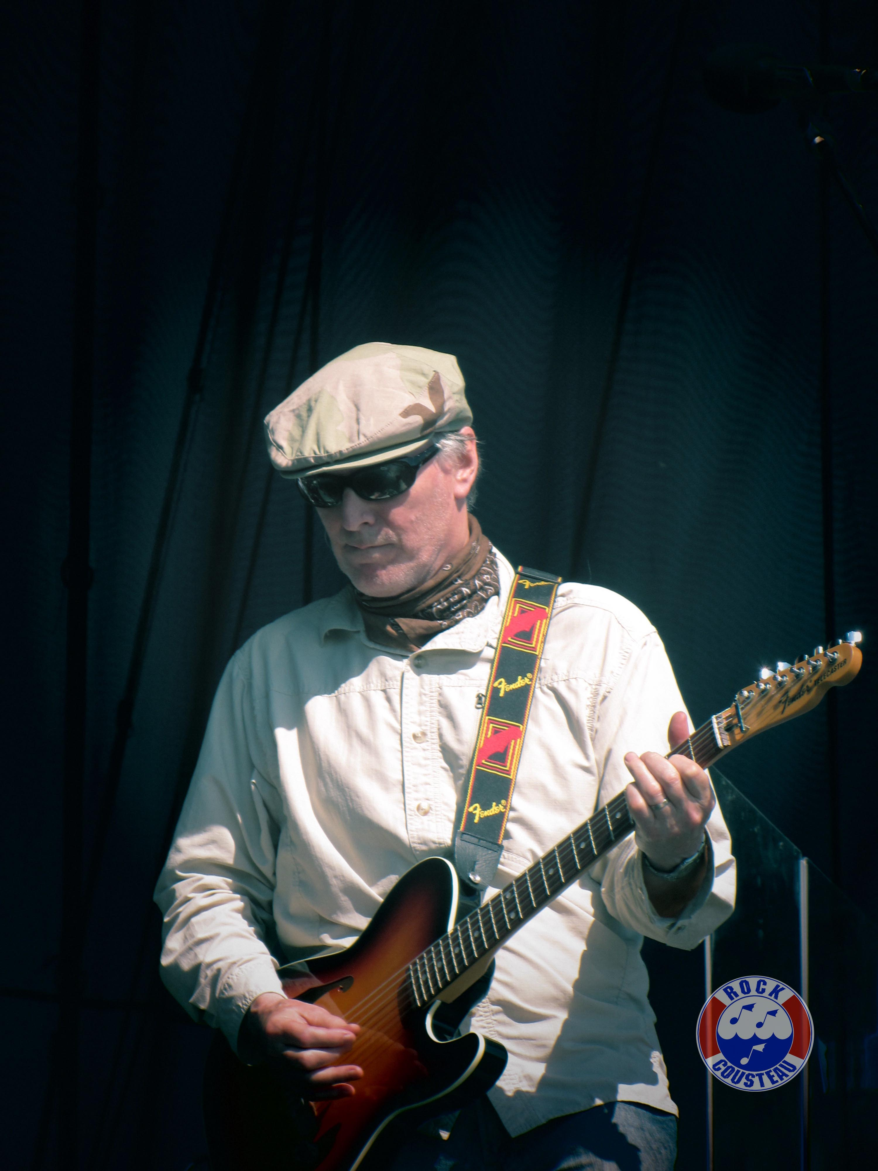 Hangout Music Festival 2012, Gulf Shores of Alabma, Day 3 (5/20/12).